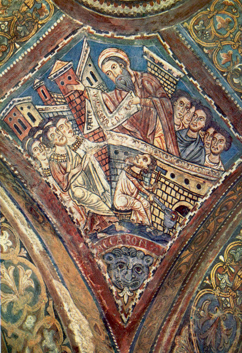 Romanesque fresco depicting the Philistine city of Ekron, from a series illustrating the biblical story of the Ark of Covenant from 1 Samuel chapters 4-6.